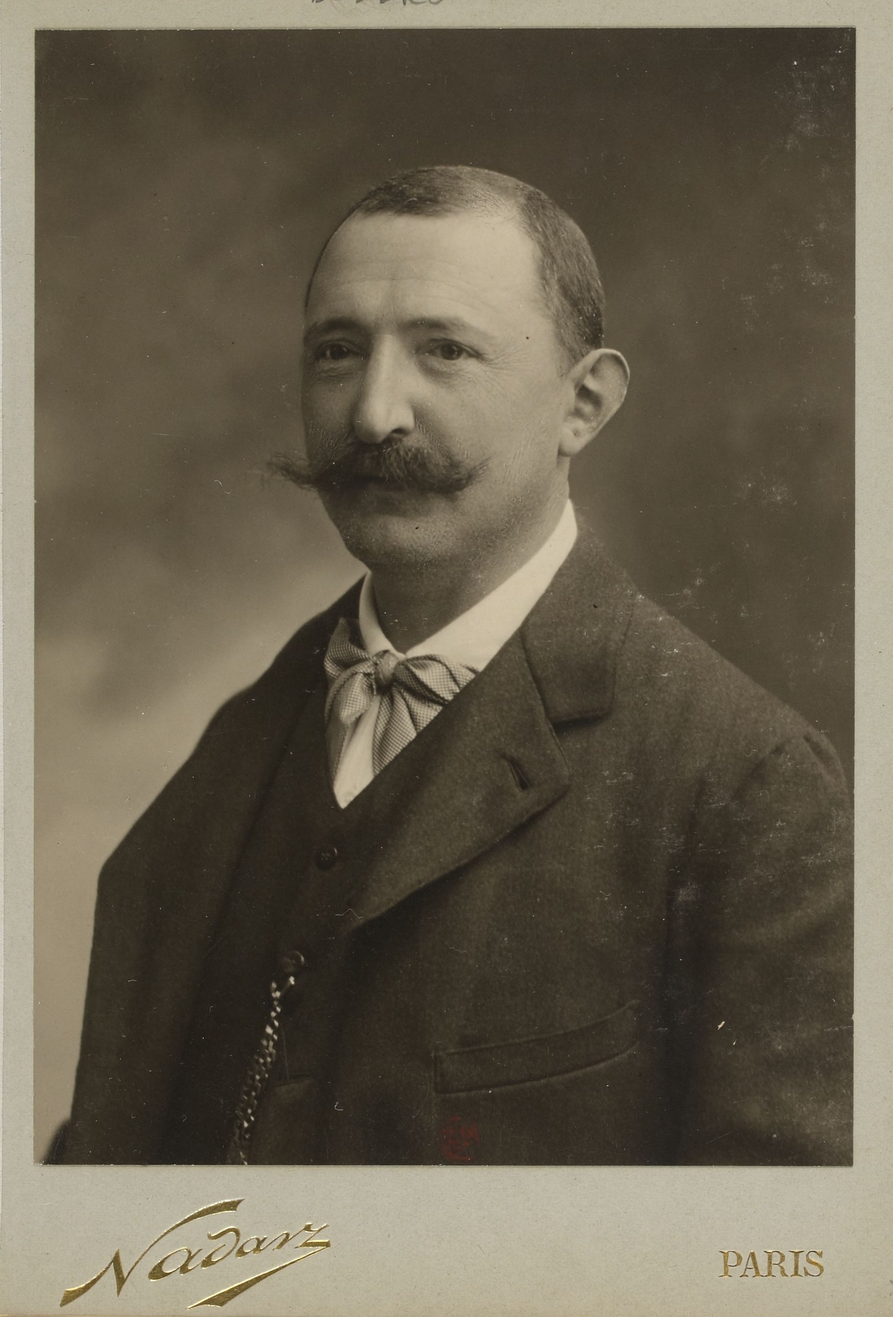 French Entomologist